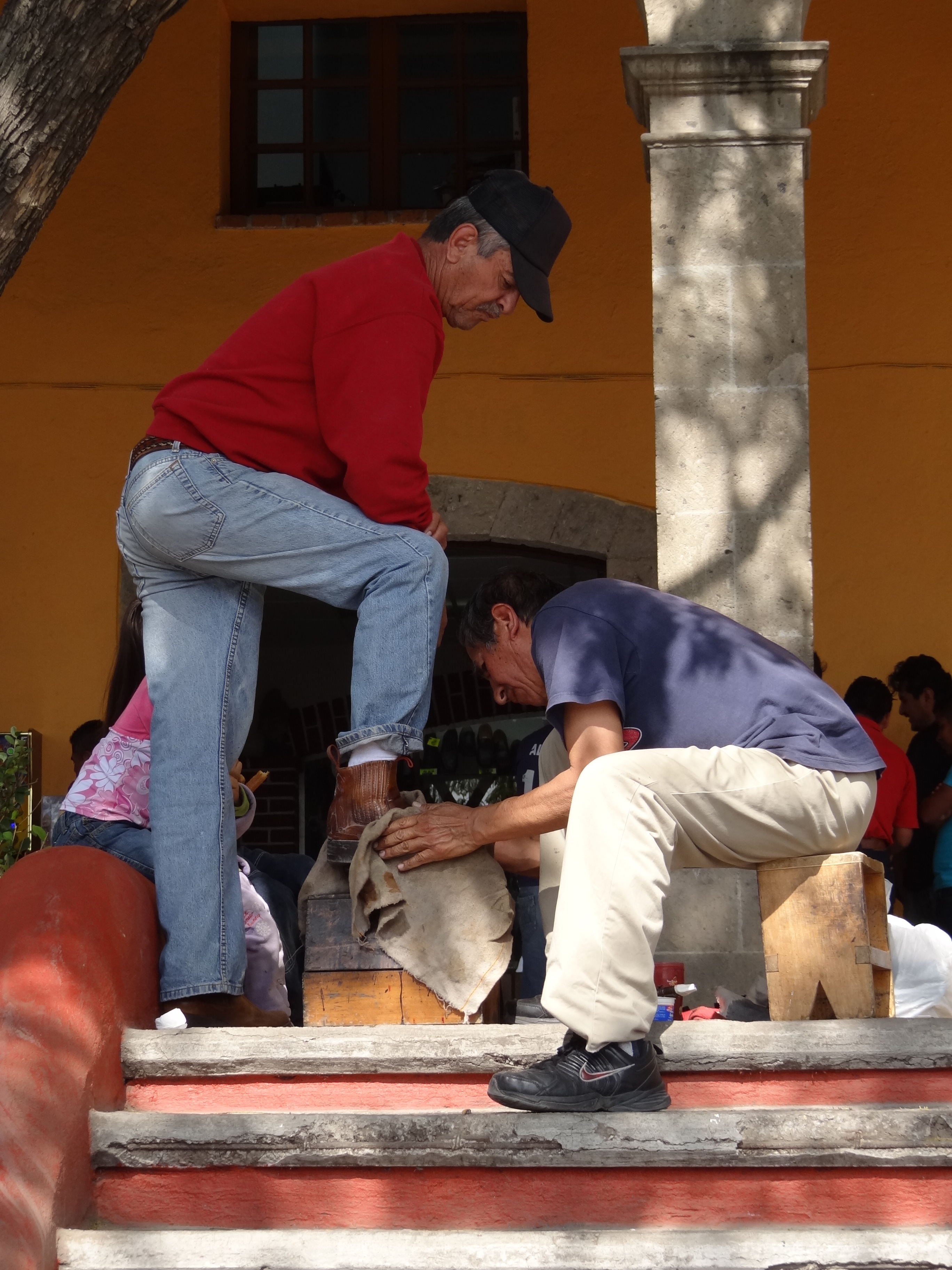 Shining Shoes - Plaza Hidalgo - Tepotzotlan - Mexico